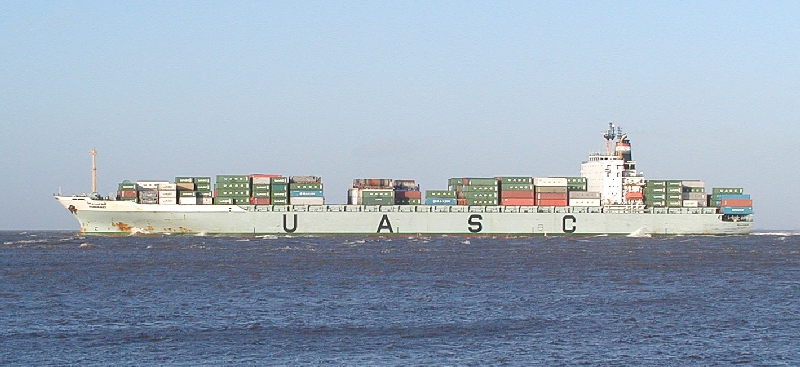 Schiff Fowairet in Cuxhaven IMO Number: 9152260 MMSI Number: 466172000 Callsign: A7EF Length: 277 m Beam: 32 m